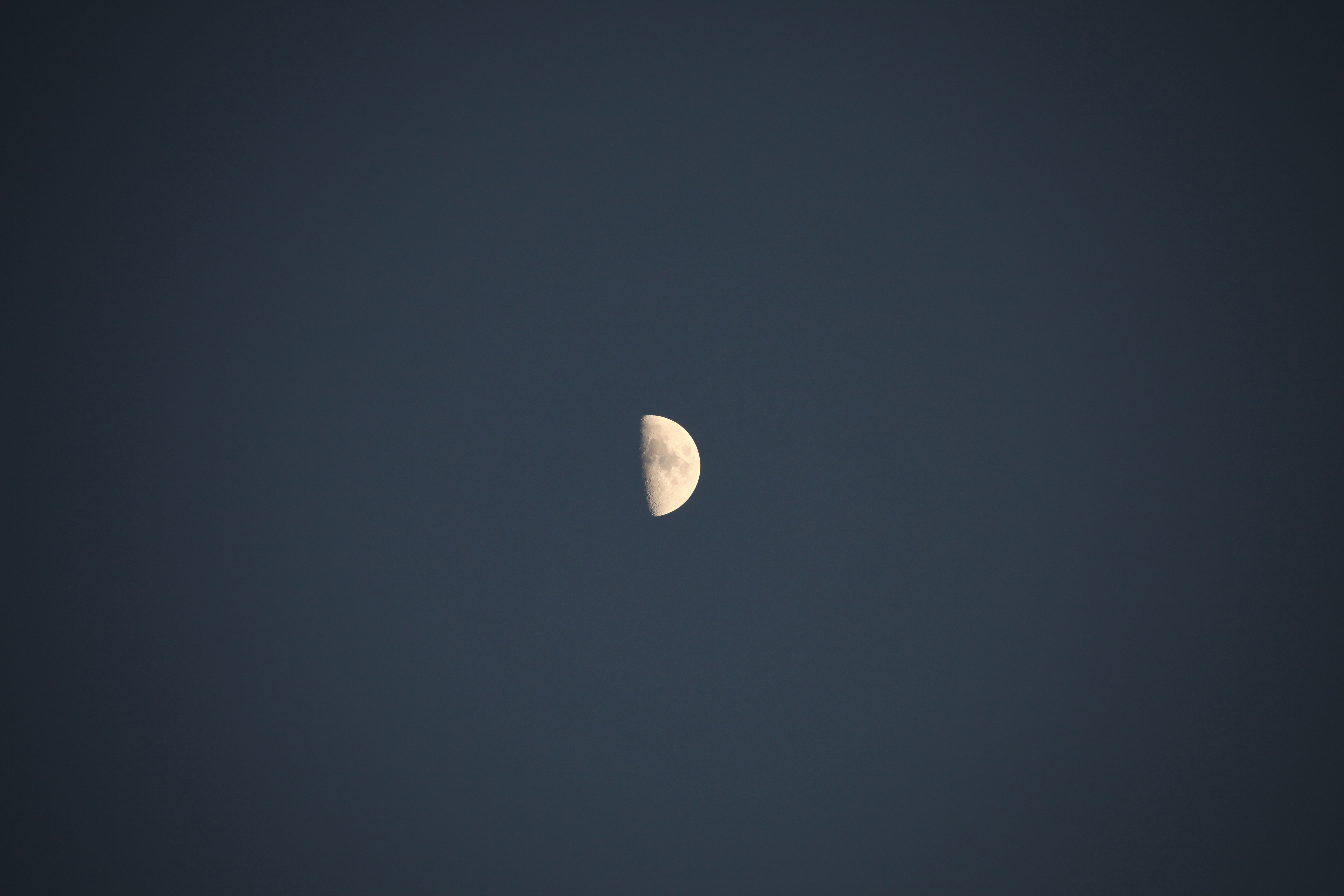 The Moon, shot on a Canon EF 28-300mm lens Tv 1/250 Av 6.3 ISO 400 Focal length 300mm Image size 5616x3744